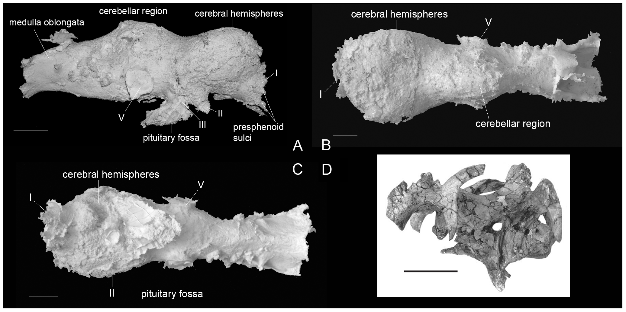 (A) right lateral view, (B) dorsal view, (C) ventral view, (D) left lateral view of the braincase (AEHM 1/232) (after [2]). Roman numerals refer to cranial nerves. Scale bar equals 2 cm for (A), (B) and (C) and equals 10 cm for (D).